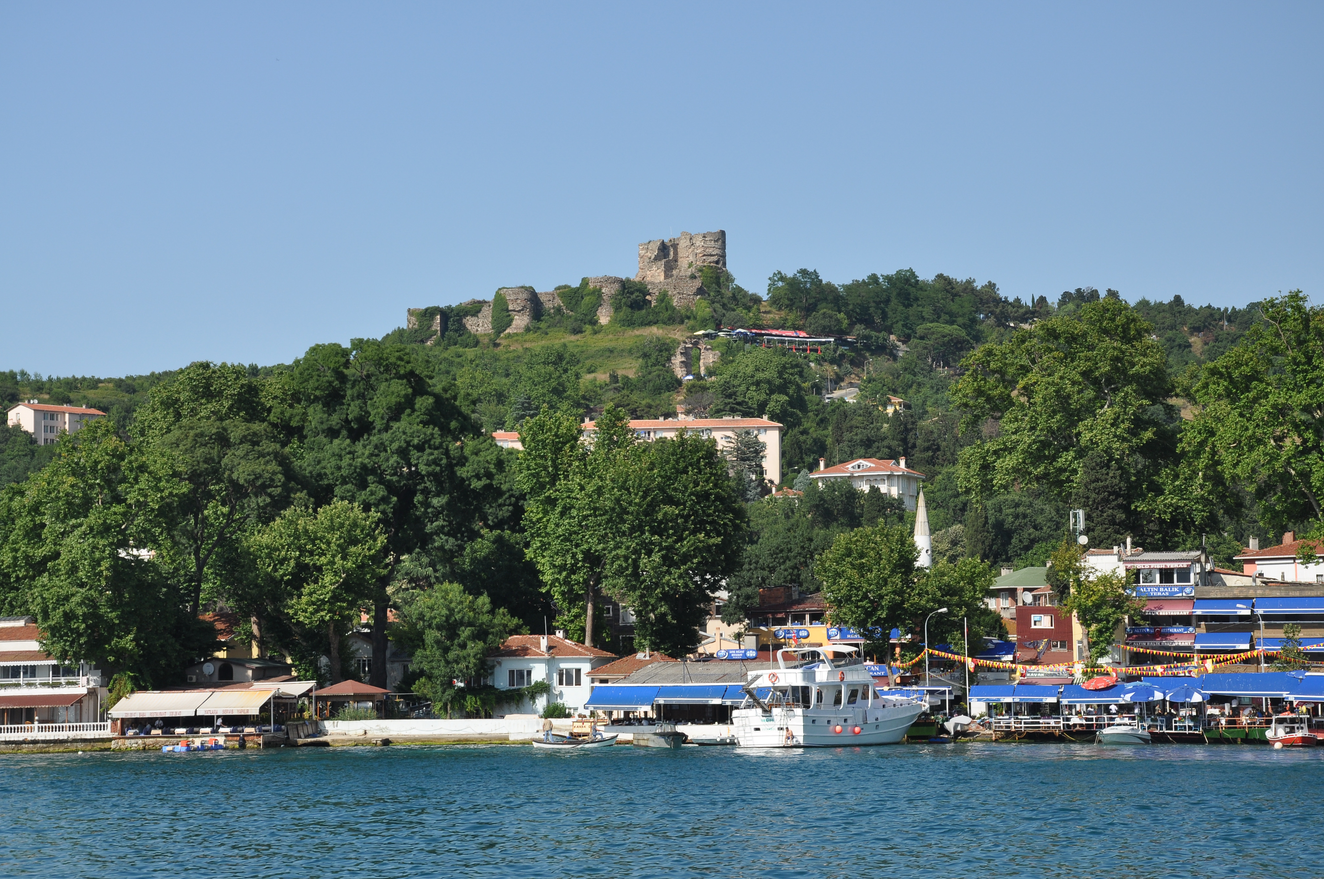 Anadolu Kavağı, the last harbour on the Asian coast of the Bosphorus before the Black Sea at the Beykoz district of Istanbul in Turkey with the Yoros Castle on background.